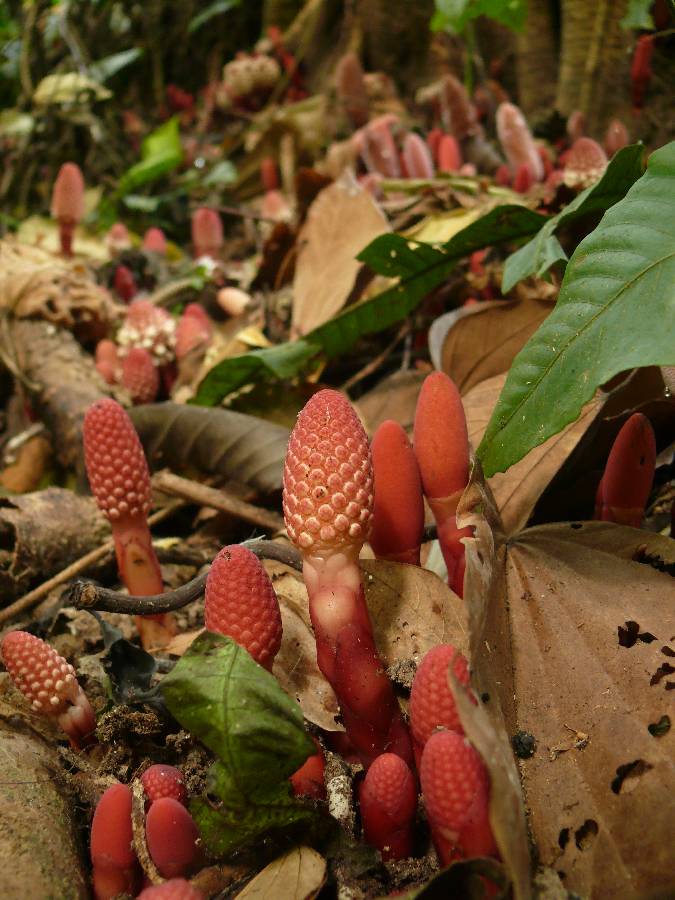 Balanophora dioica in Pakke, Arunachal Pradesh